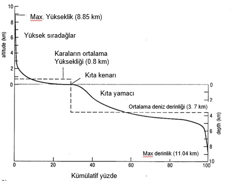 Hipsometrik eğri şekil